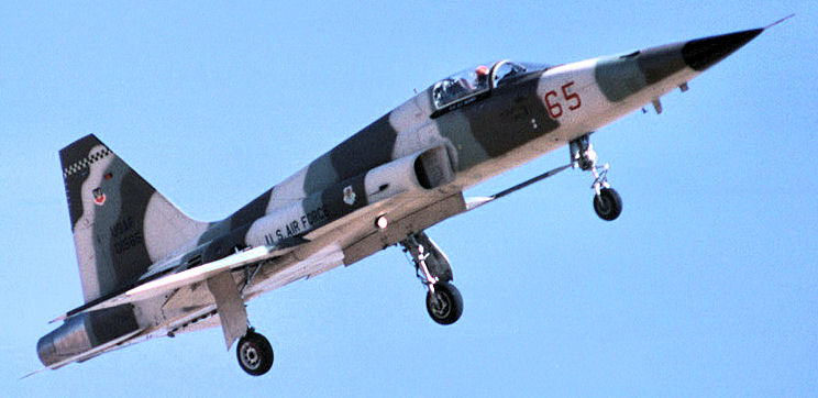 65th Aggressor Squadron F-5E Tiger II "Regressors" aircraft.